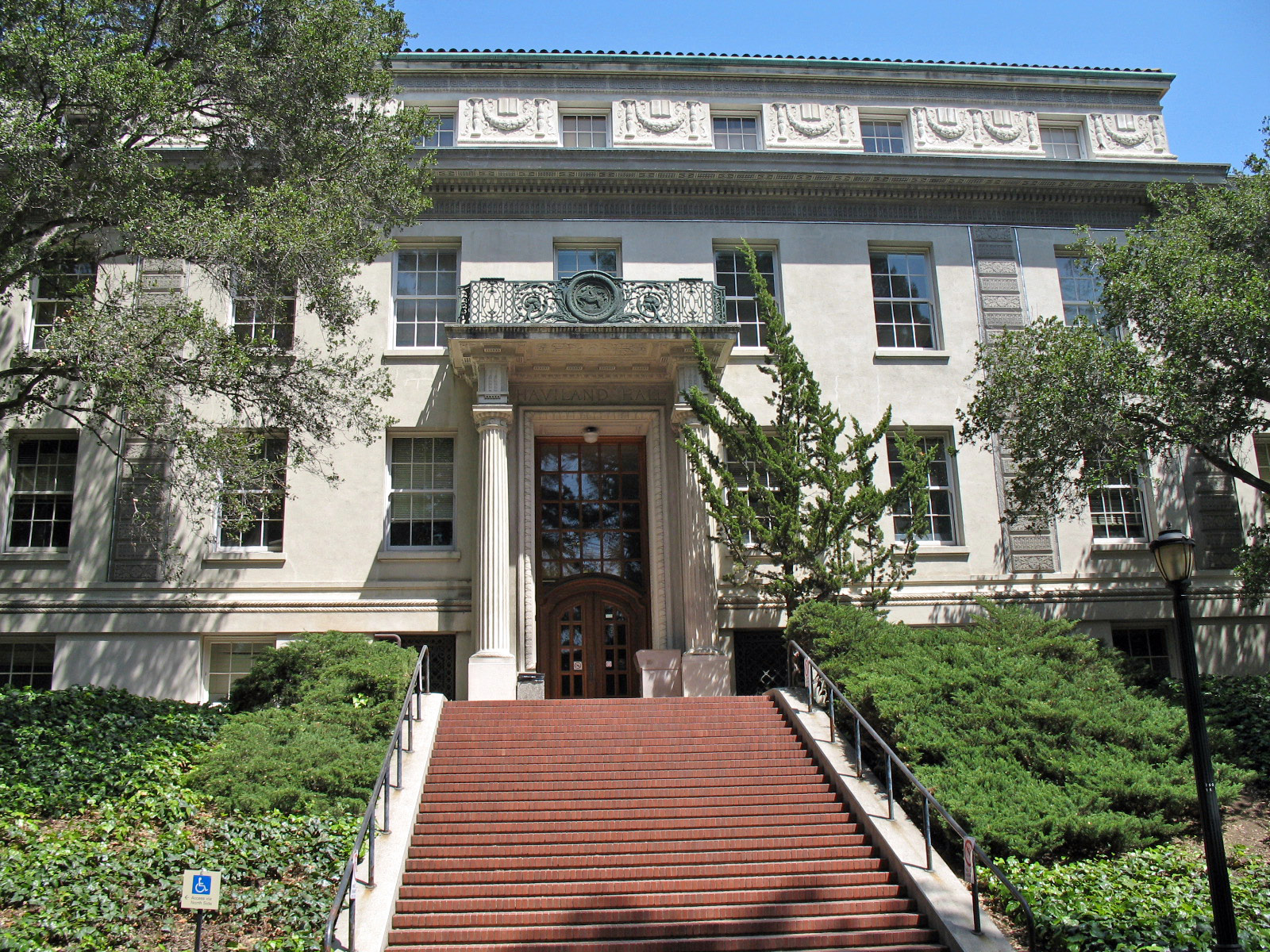 National Register of Historic Places listings in Alameda County, California. Haviland Hall, University of California, Berkeley. Photographed 2009-04-26 from the grounds to the west of the building.